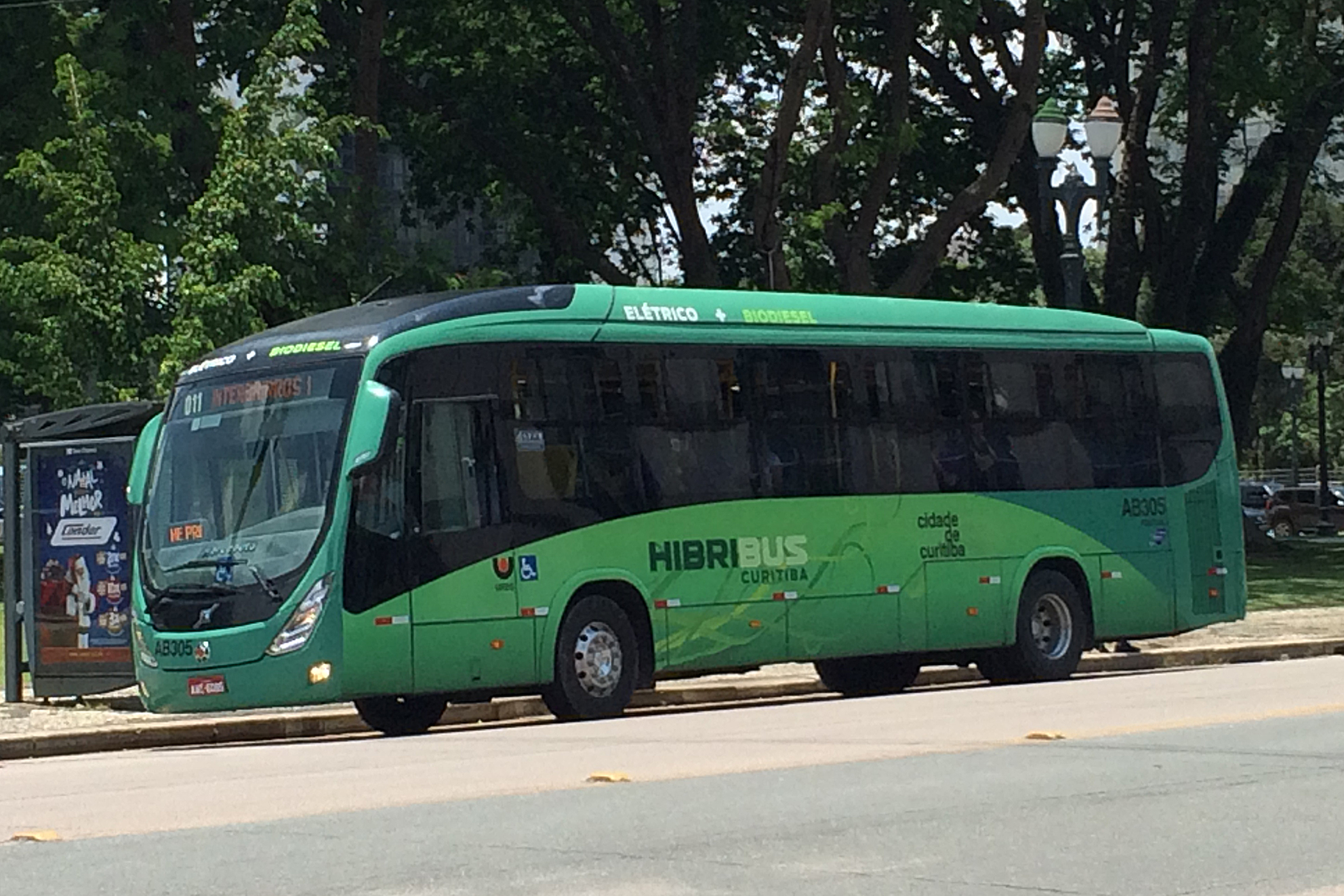 Hybrid biodiesel-electric bus in Curitiba, Brazil